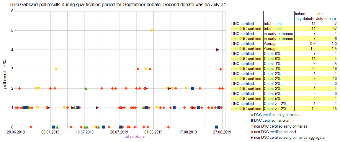 Diagram of Tulsi Gabbard poll results during the qualification period June 28 - August 28, 2019 for the September debates of the 2020 Democratic Party presidential primaries. An embedded table contains aggregates for total poll count, average result, etc. separately for DNC certified and non - DNC certified polls, as well as separately for the time period before and after the July 31, 2019 debate.